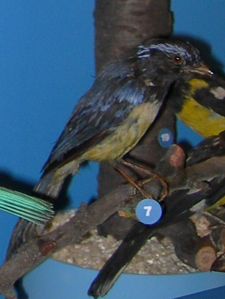 Mounted Buff-breasted Mountain-tanager (Dubusia taeniata), at the Muséum d'Histoire naturelle de Genève.